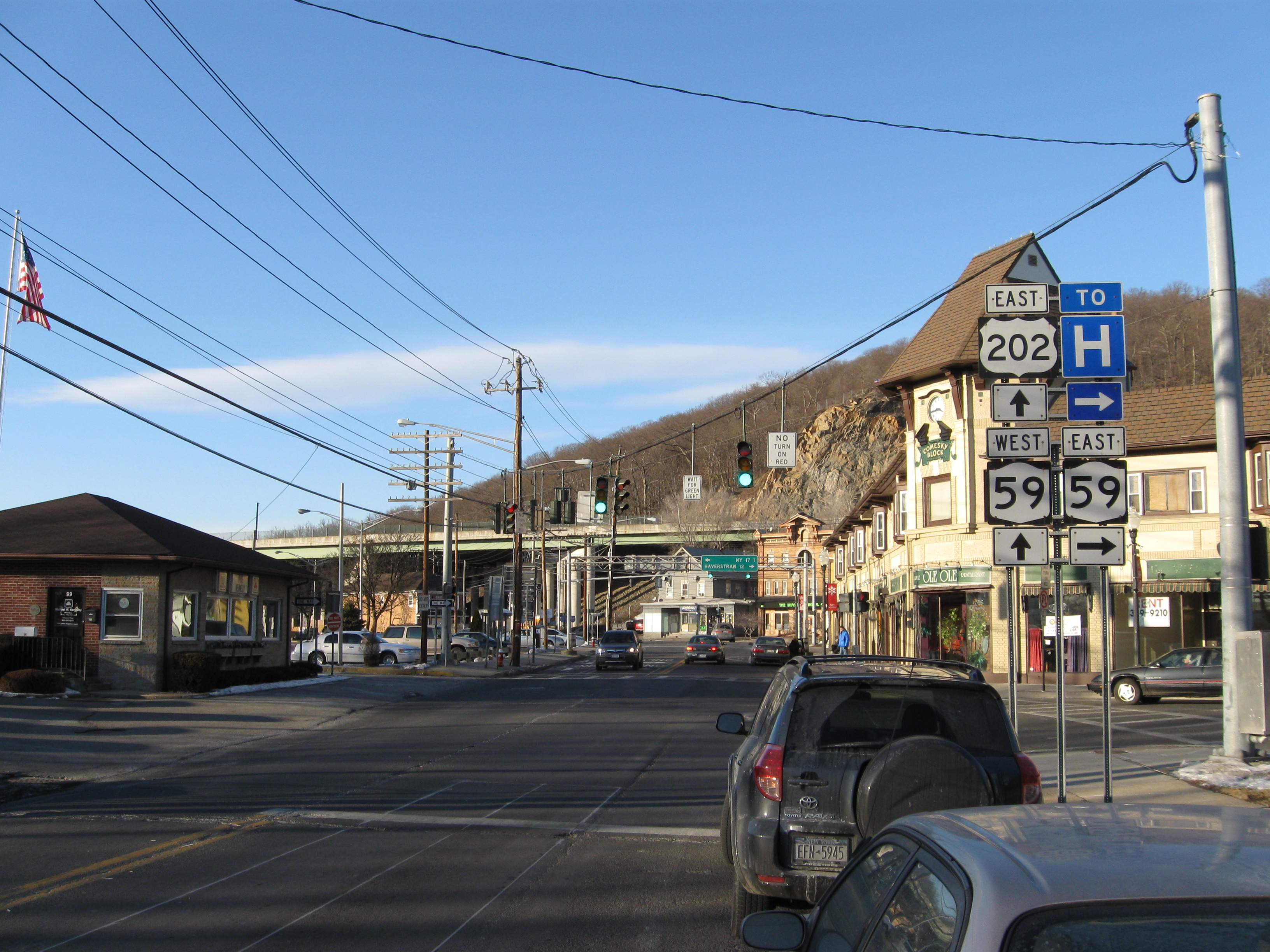 US 202's brief wrong-way concurrency with New York State Route 59 in Suffern, New York. Note also the overpass for the New York State Thruway in the background.